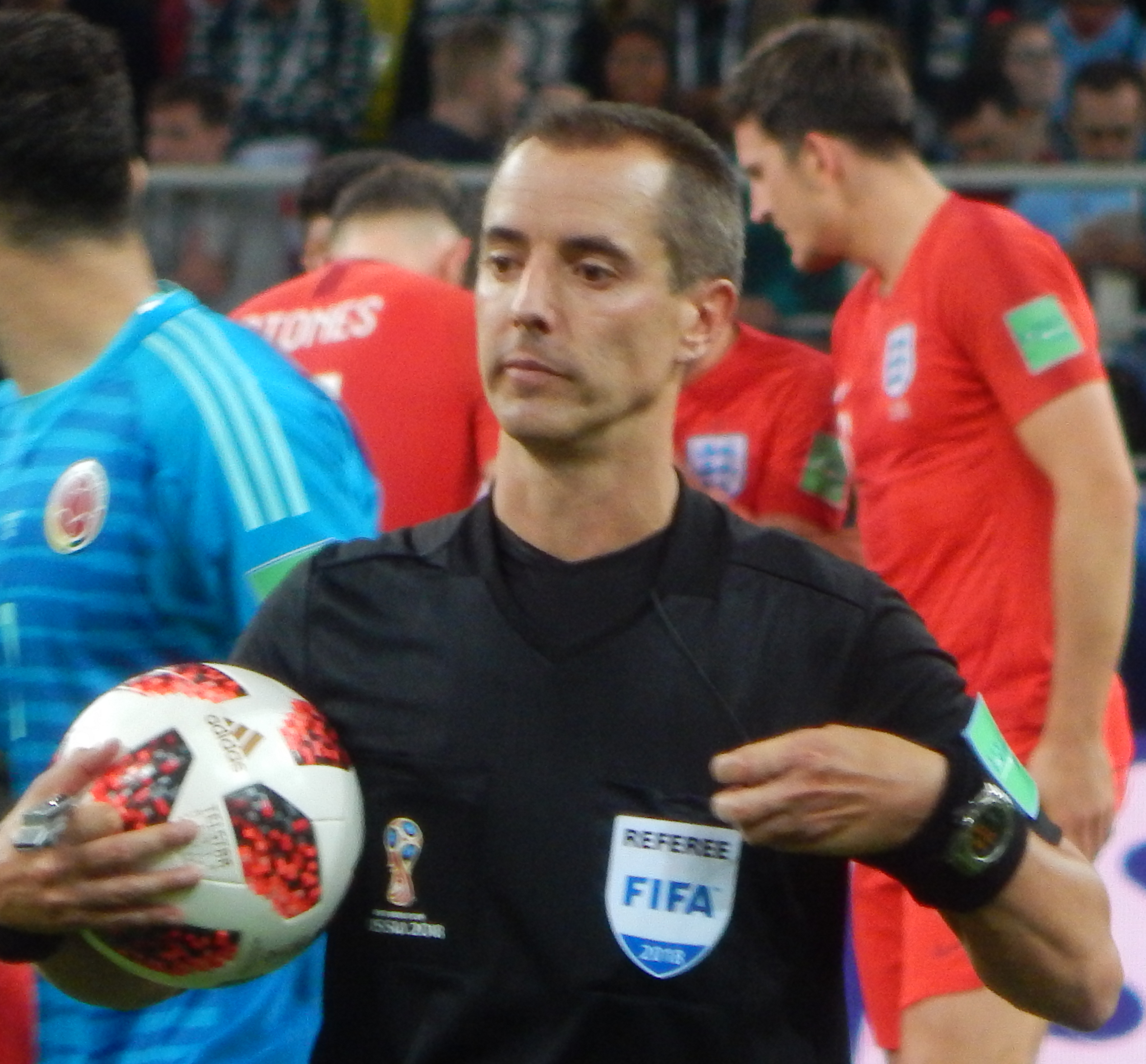 FIFA World Cup 2018, Round of 16, Colombia vs. England. Mark Geiger before the shoot-out